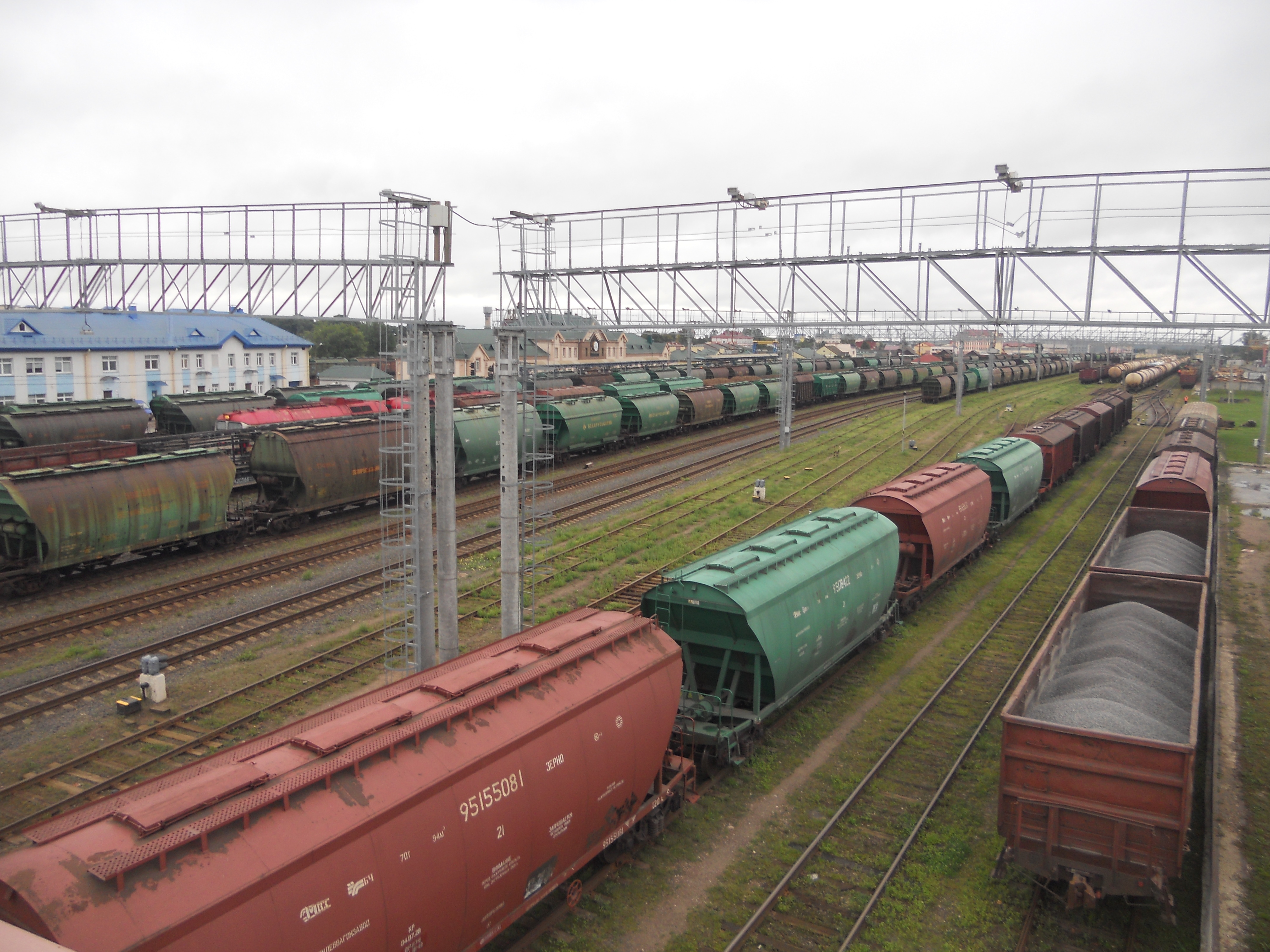 Railway junction Lida